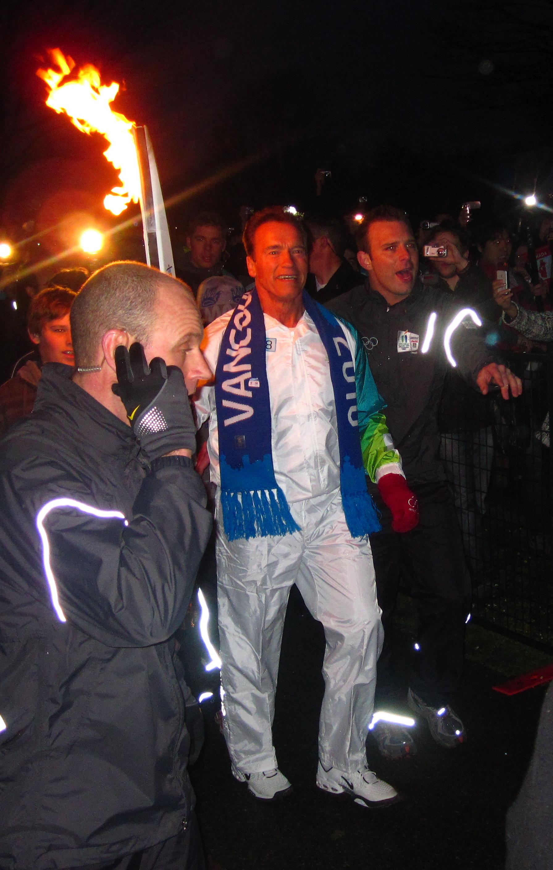 Arnold Schwarzenegger with the olympic flame during the olympics torch relay, Vancouver